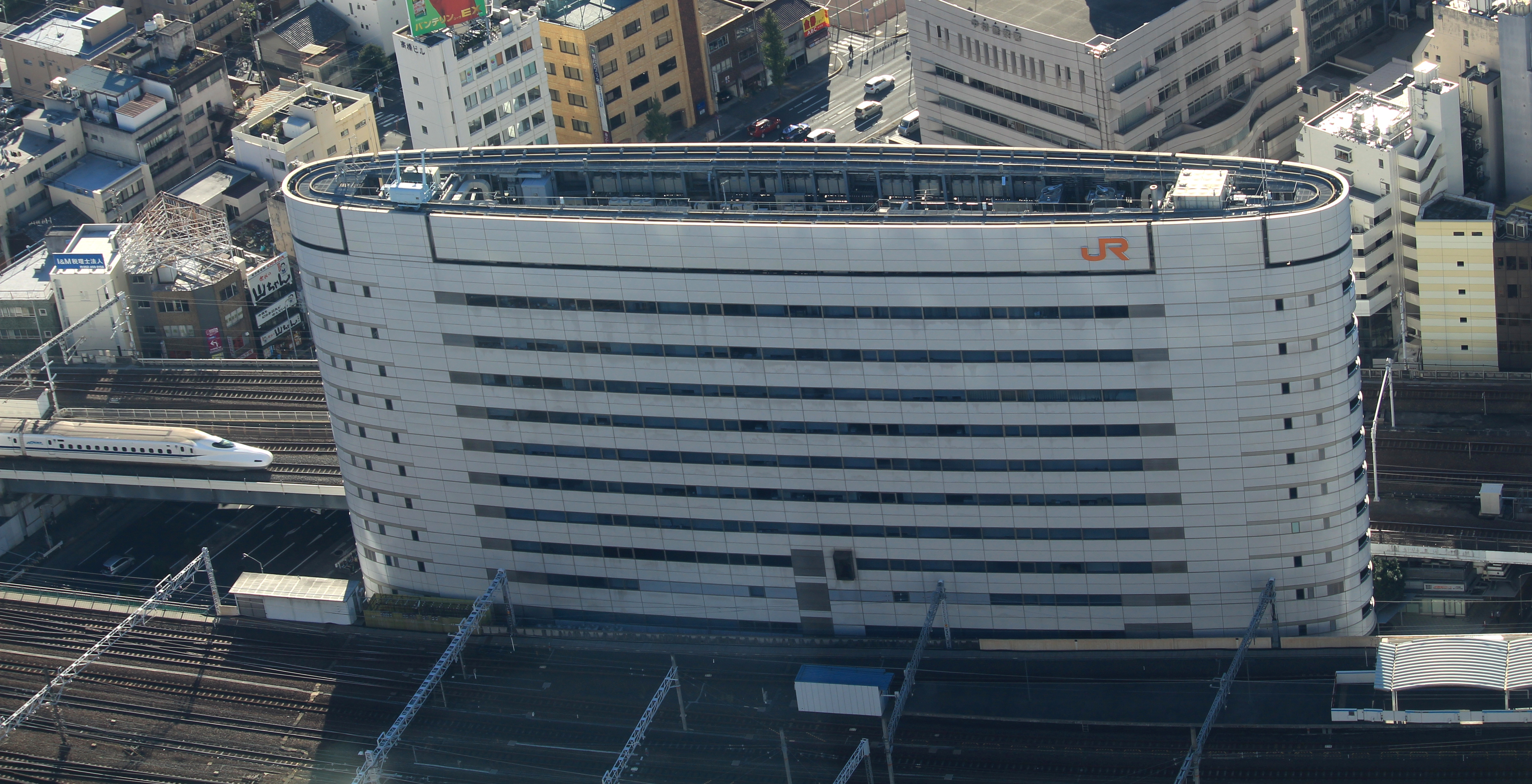 JR Tokai Taiko Building seen from Midland Square, in Meieki, Nakamura, Nagoya, Aichi prefecture, Japan.